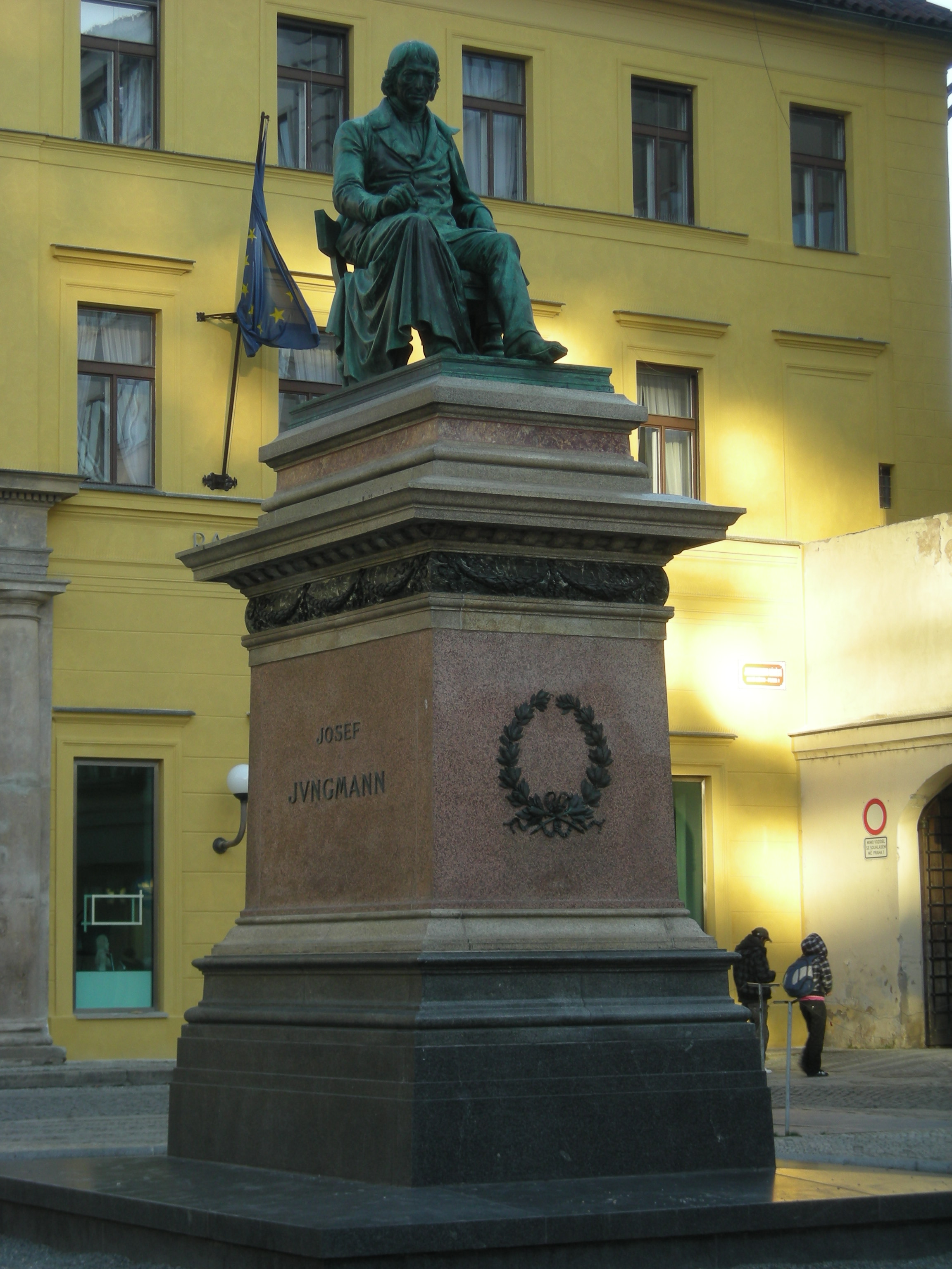 Statue of Josef Jungmann (1773 - 1847), Czech linguist. It is located on Jungmann Square (Czech: Jungmannovo náměstí) in Prague, Czech Republic